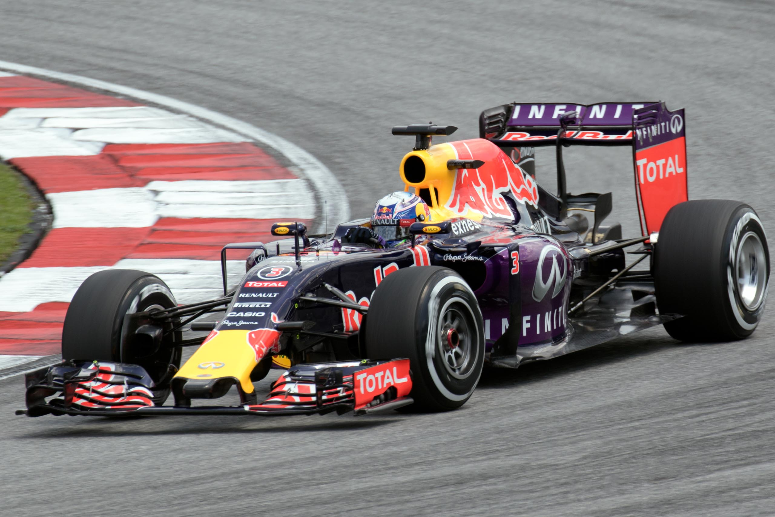 Formula One 2015 Rd.2 Malaysian GP: Daniel Ricciardo (Red Bull)